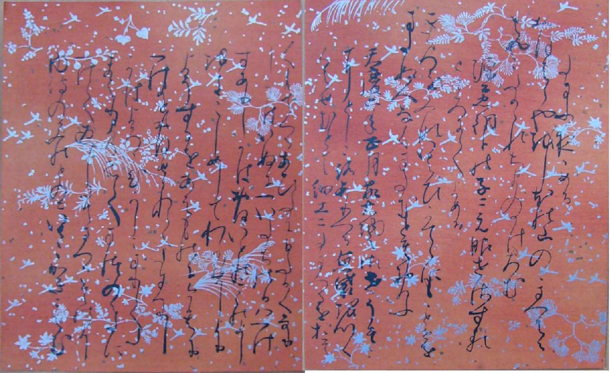 Two pages of the collected poems of KI TURAYUKI (ca. ACE868- ACE945), 2nd volume. 20cm height, 32cm wide. Silver and ink on ornamented paper. One of the Collection of the works of thirty six master poets in the NISHI-HONGANJI, Kyoto. Most luxurious illuminated manuscript books survived from ancient Japan. In 1925, dismantled to each page and sold to collectors.